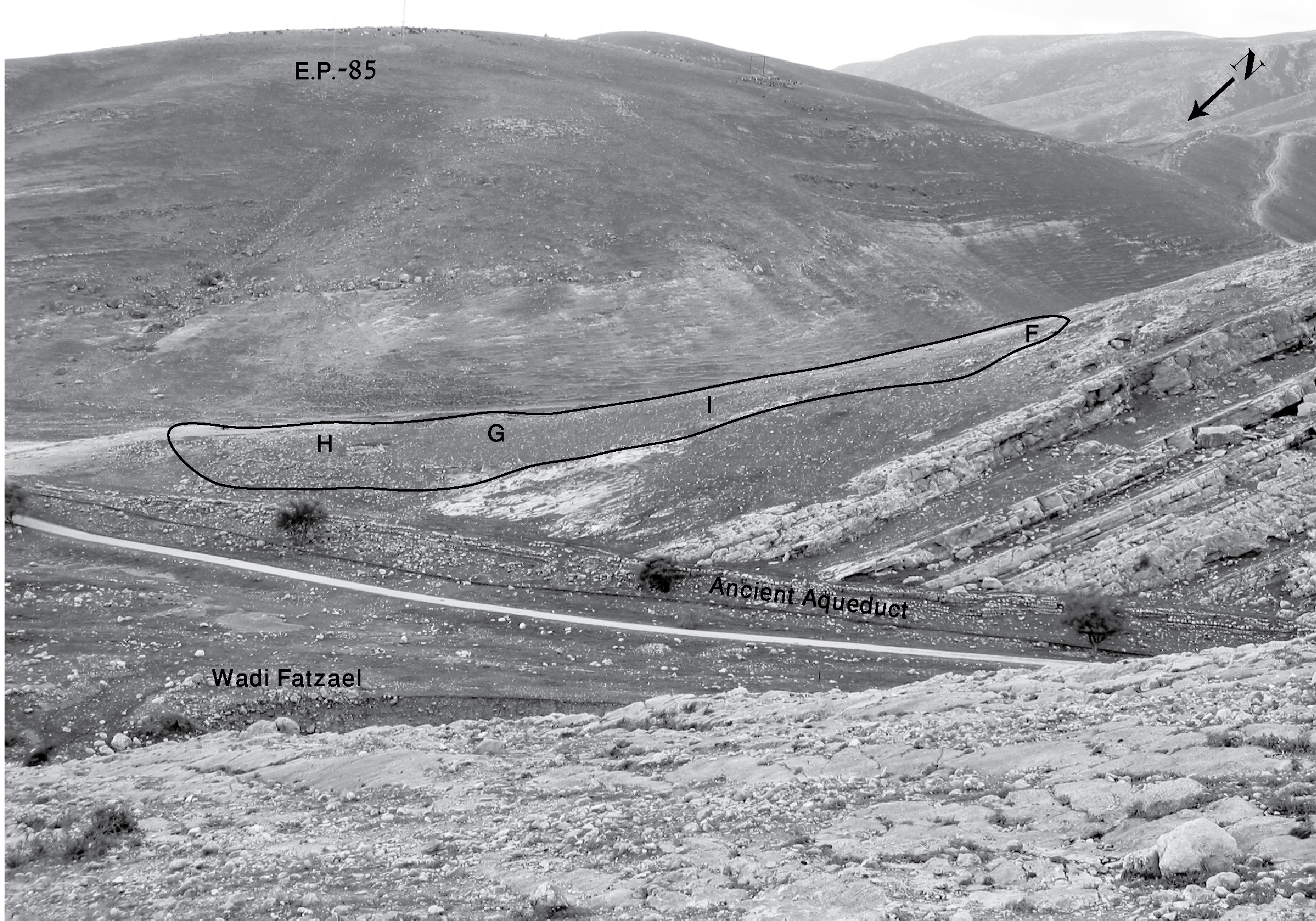 Sheikh Diab 2- Early Bronze Age 1 Archaeological site in Jordan Valley שייח' דיאב 2 - אתר ארכאולוגי מתקופת הברונזה הקדומה 1 - האתר שוכן בבקעת הירדן ליד היישוב פצאל This work is free and may be used by anyone for any purpose. If you wish to use this content, you do not need to request permission as long as you follow any licensing requirements mentioned on this page.